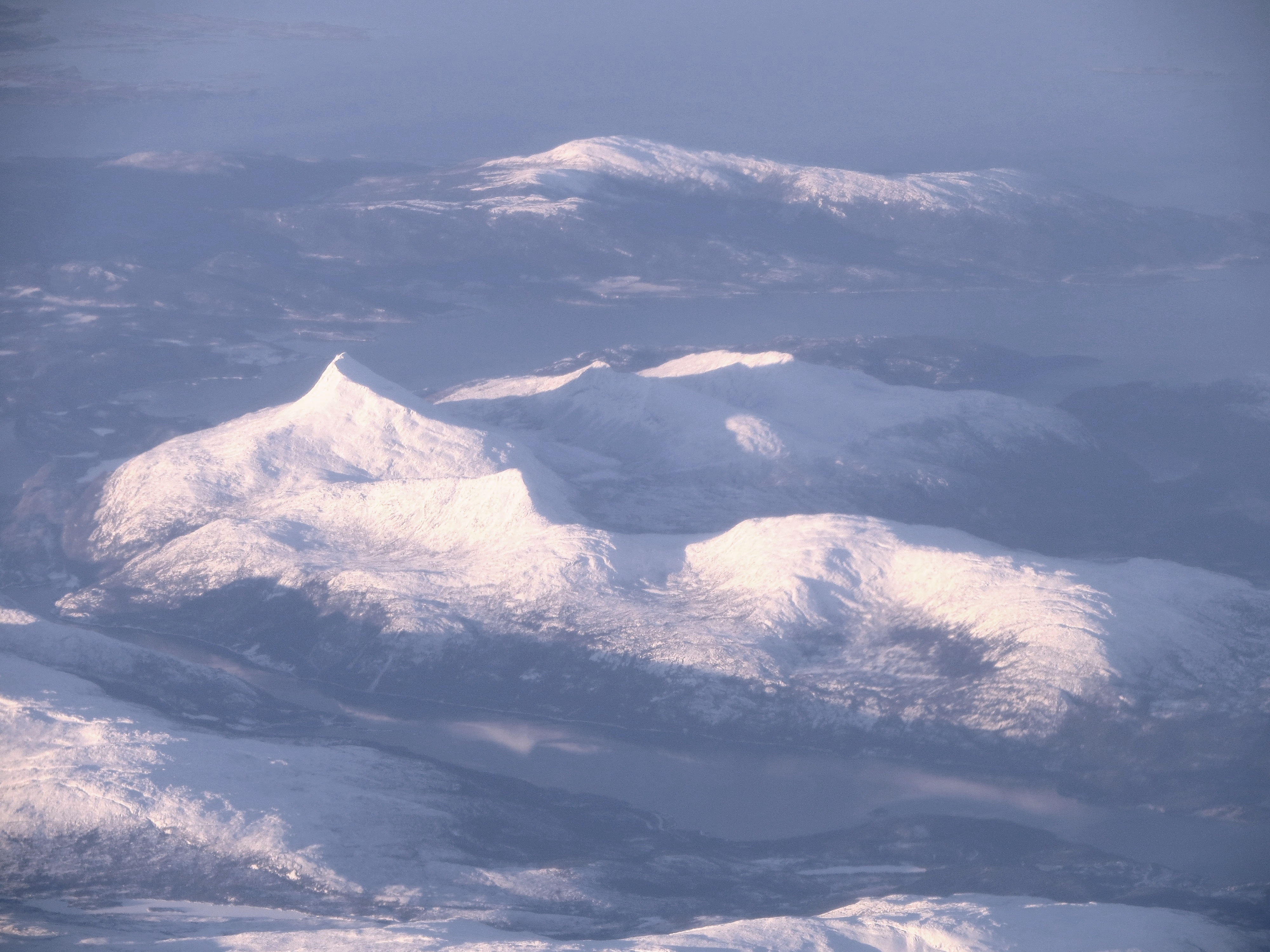 Aerial view from the east towards west, of Bindal municipality in Nordland county, Norway.